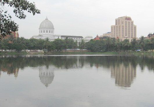 The General Post Office and Reserve Bank of India building from across Lal Dighi in B.B.D.Bagh, Calcutta